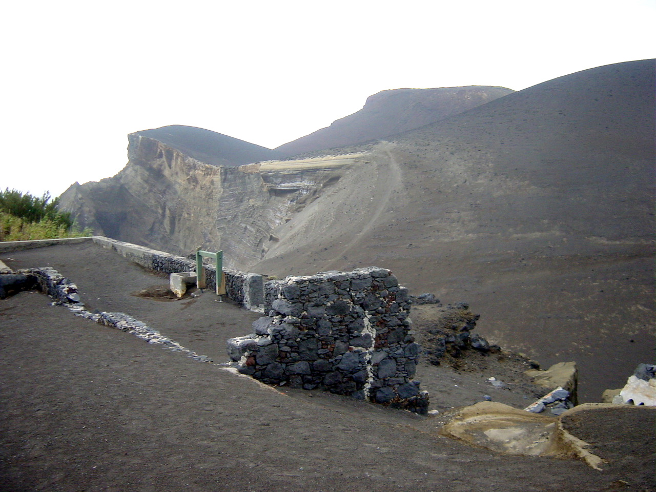 Capelinhos volcano, Faial Island, Azores, Portugal